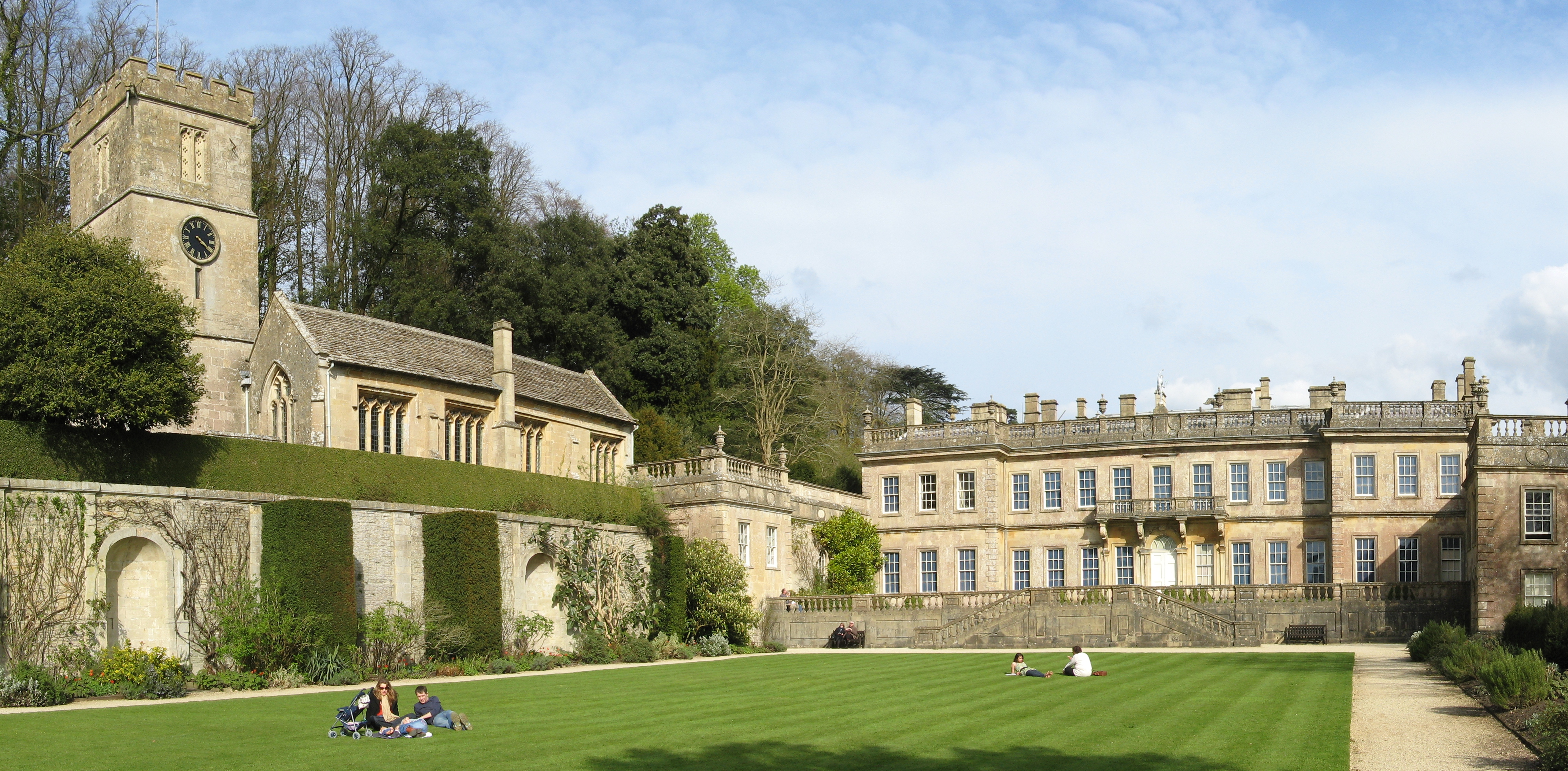 West side of Dyrham Park house and St Peter's Church, from west lawn.